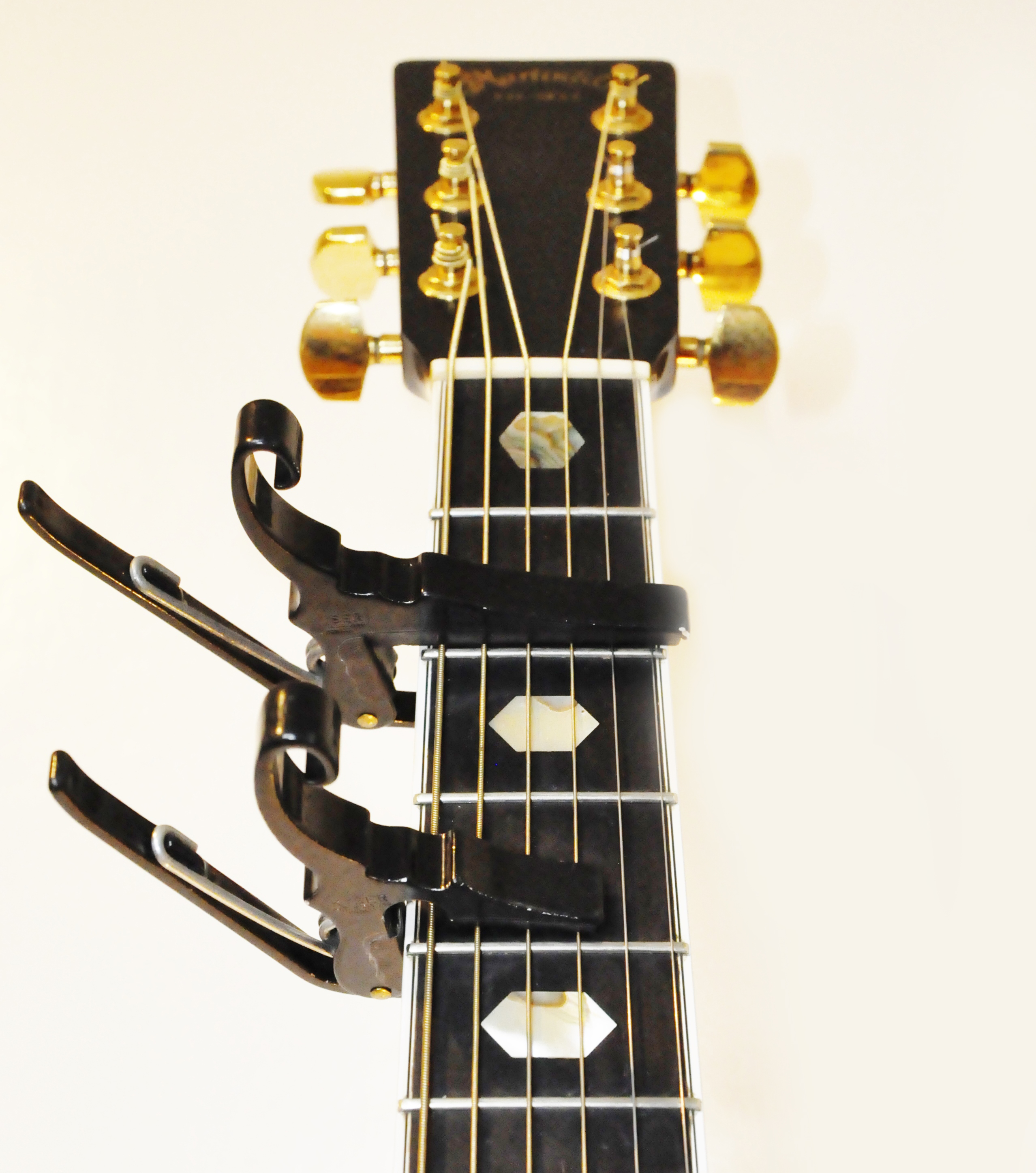 Guitar with a standard and a partial (short-cut) capo.